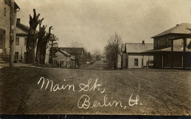 Scan of a real photo postcard of Berlin, Holmes County Ohio looking east circa 1909. Photo taken from near the square (intersection of Market and Main streets). Building at the end of the street is believed to be just east of the intersection of present day US 62 and SR 39. White horse is approximately in front of wagon shop which is presently Boyd and Wurthman restaurant.